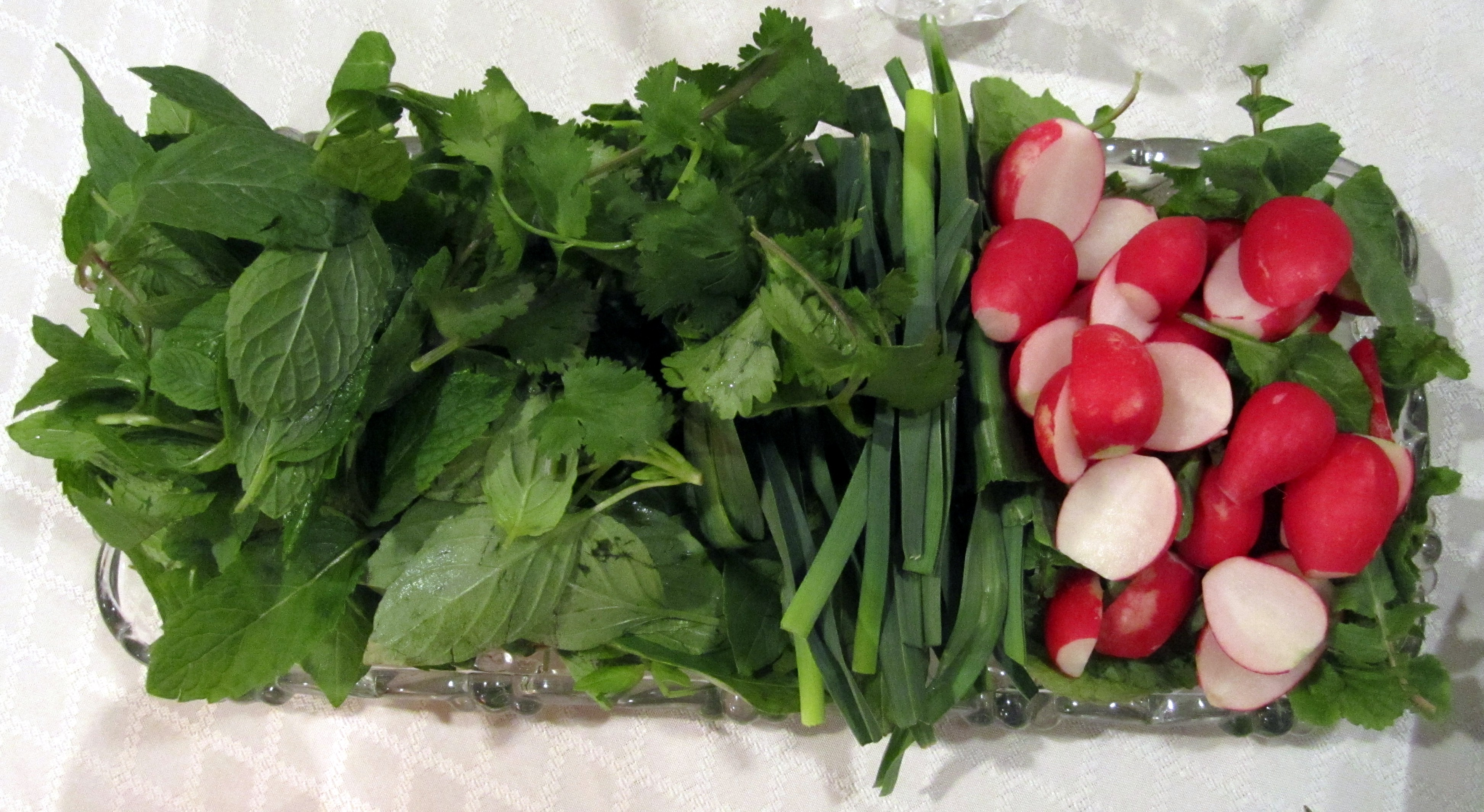 Kanachi -- fresh raw herbs as a side dish, here containing mint, parsley, young leek leaves, and radish